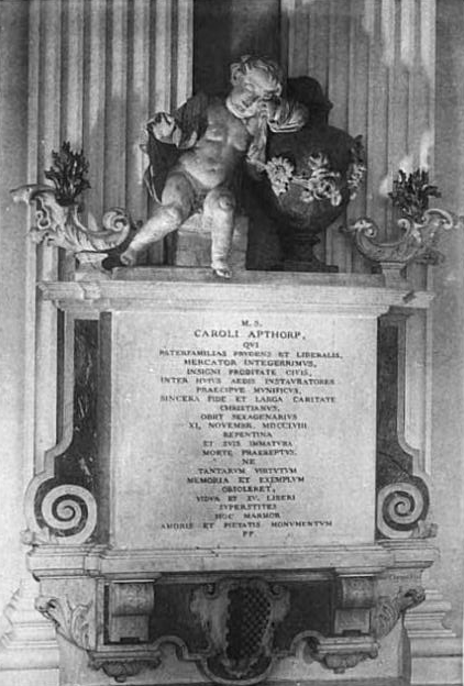 Apthorp marker, by Henry Cheere, in King's Chapel, Boston Sir Henry Cheere (1703–1781) Alternative namesSir Henry Cheere, 1st BaronetDescription British sculptor Date of birth/death170315 January 1781Work period1718-1770Work locationWestminster